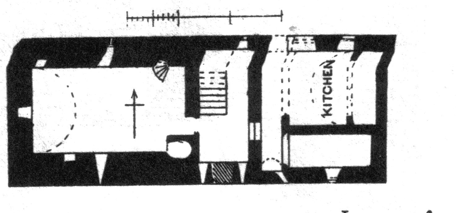 The groundplan of Hessilhead Castle, Beith, North Ayrshire, Scotland.